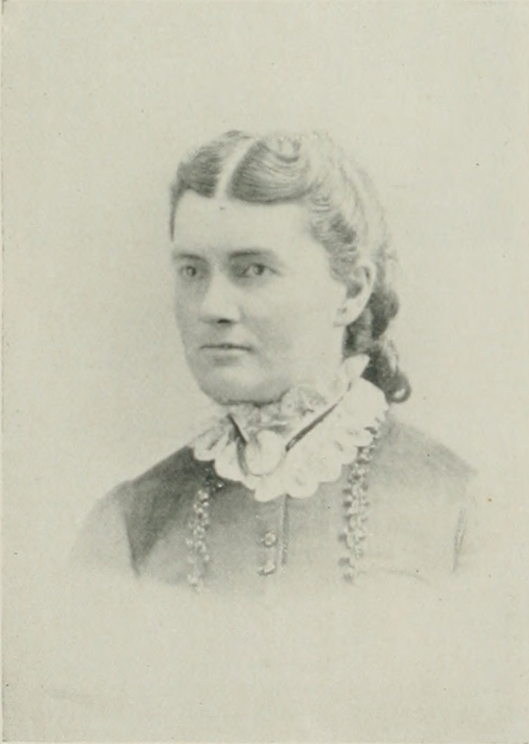 image from File:A woman of the century.djvu published 1893